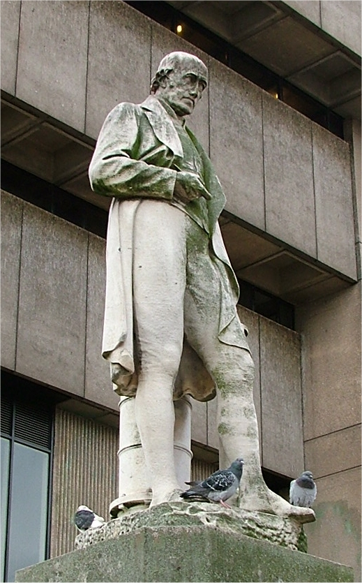 James Watt statue, in Chamberlain Square, outside Birmingham Central Library, Birmingham. 1868 by Alexander Munro. Made in Sicilian marble. Photo by and copyright Tagishsimon